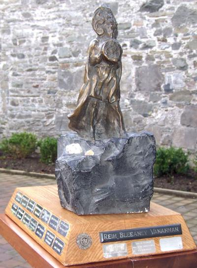 The Reih Bleeaney Vanannan trophy, the Isle of Man's most prestigious annual award for culture.